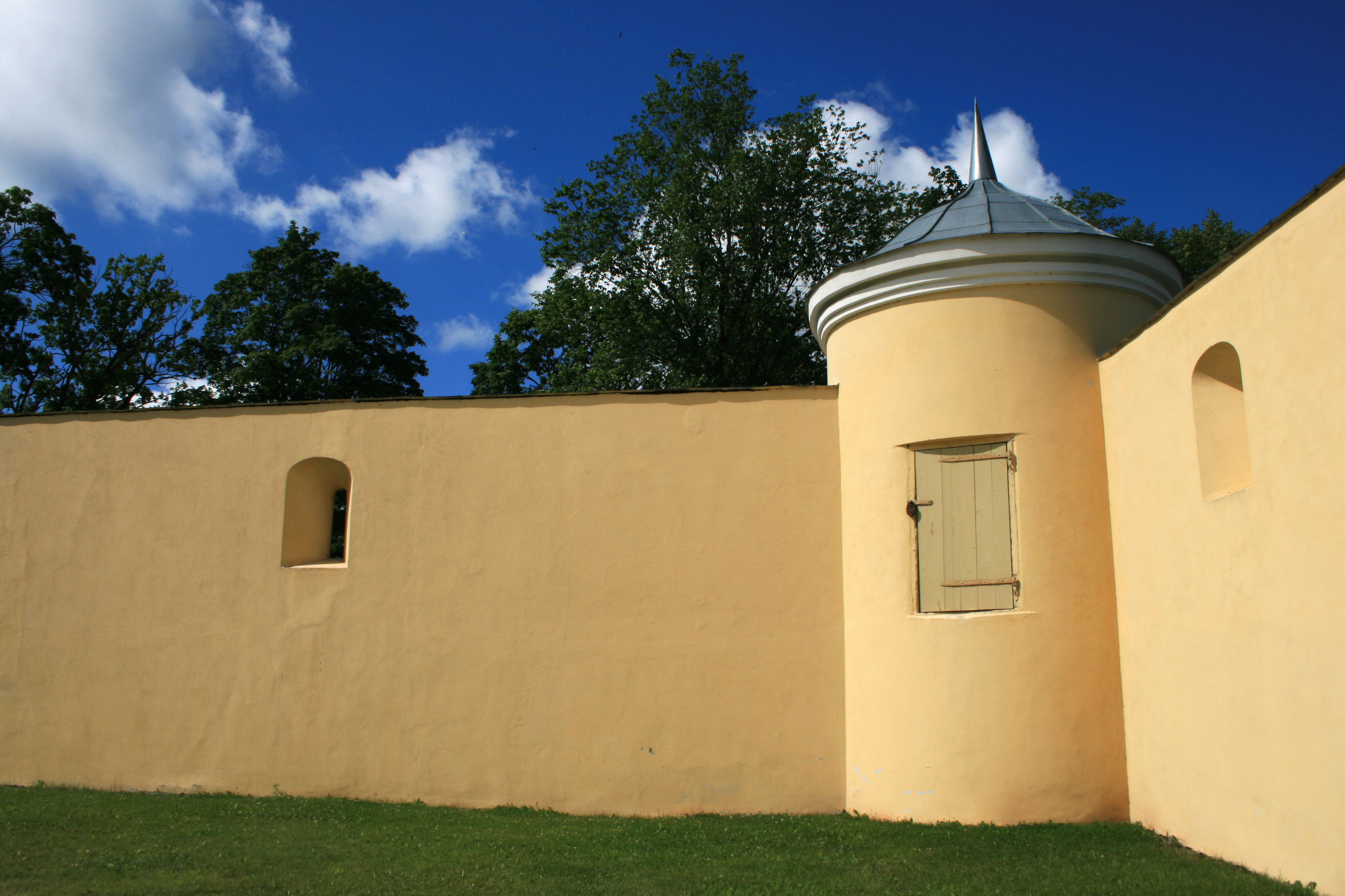 Detail of Krustpils Castle